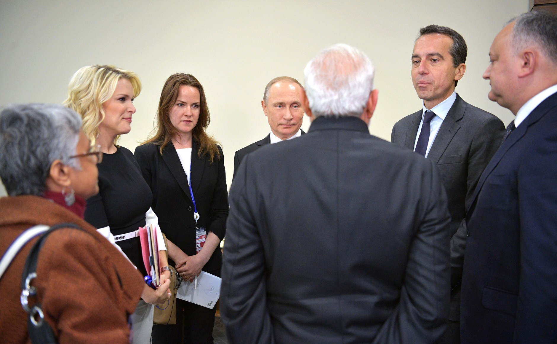 Indian Prime Minister Narendra Modi speaks with Russian President Vladimir Putin, Austrian Federal Chancellor Christian Kern, and Moldovan President Igor Dodon on the sidelines of the St Petersburg International Economic Forum.